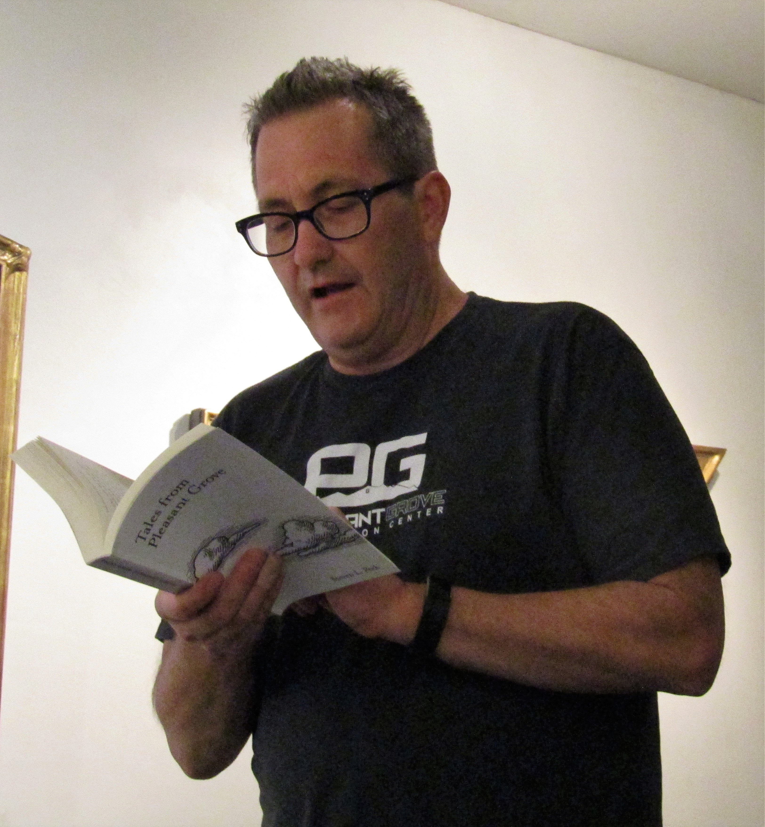 Evolutionary biologist Steven L. Peck at a book-reading event at Writ & Vision.